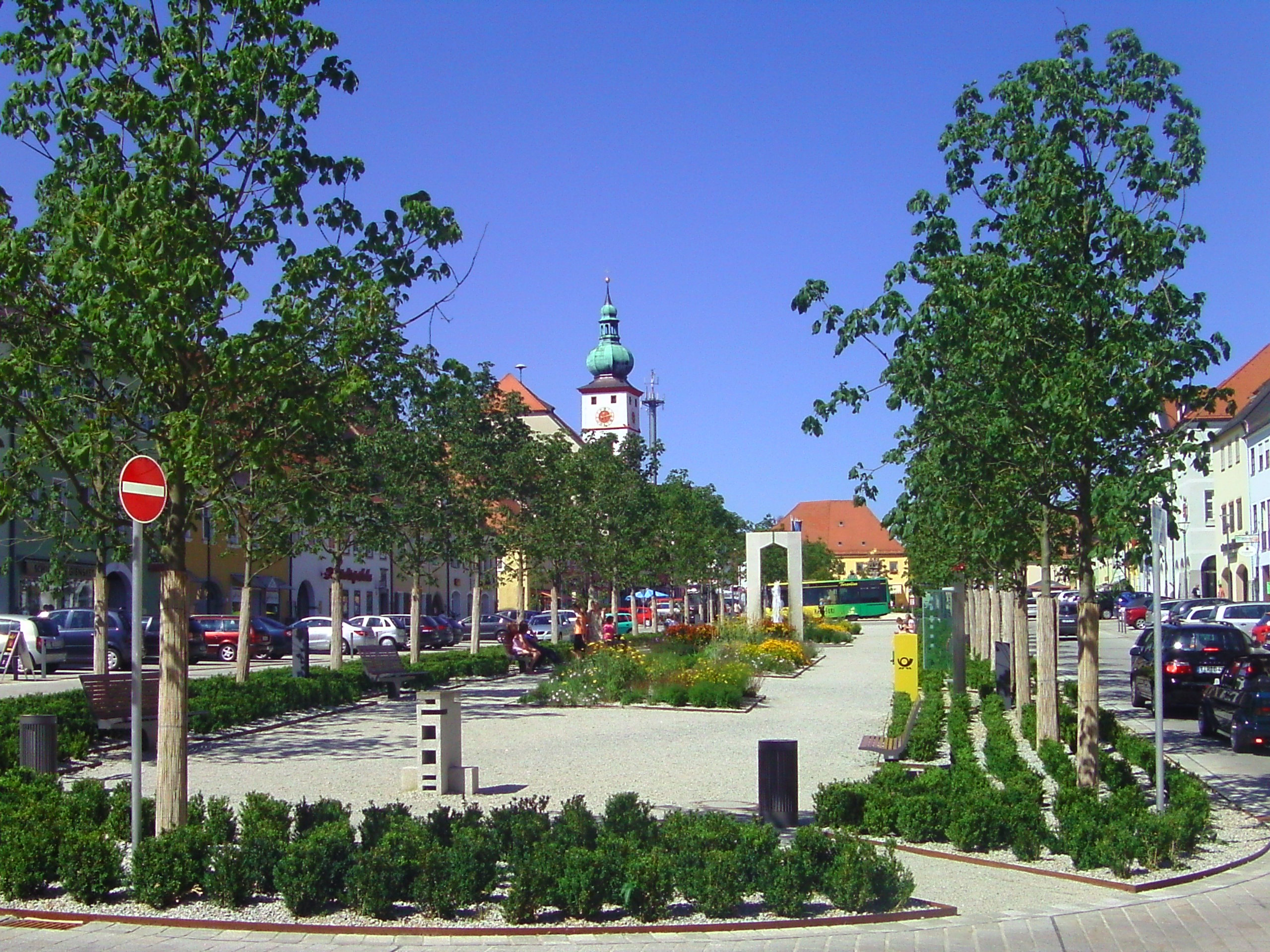 Market Place in Tirschenreuth